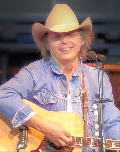 Dwight Yoakam performing at the 2008 San Diego County Fair